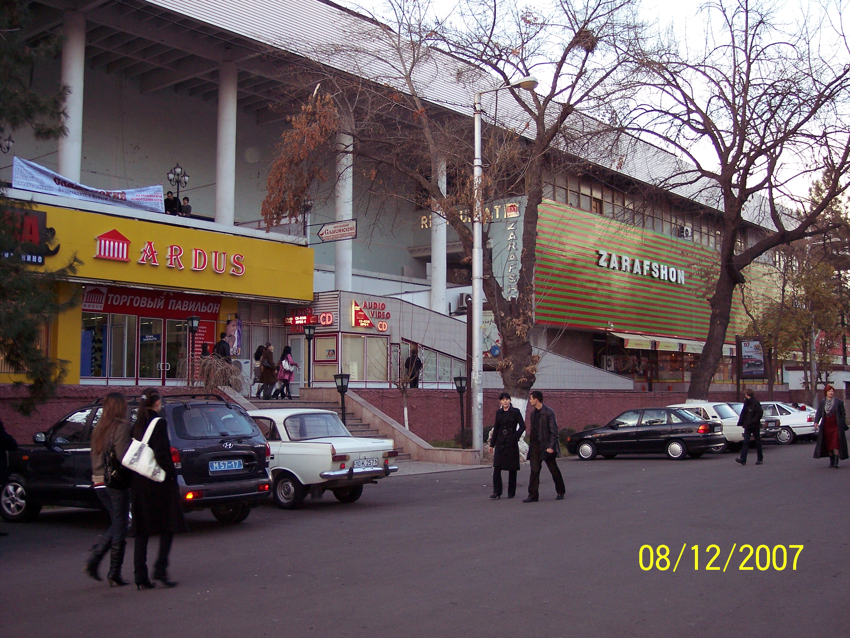 Ataturk street in Tashkent, Uzbekistan.